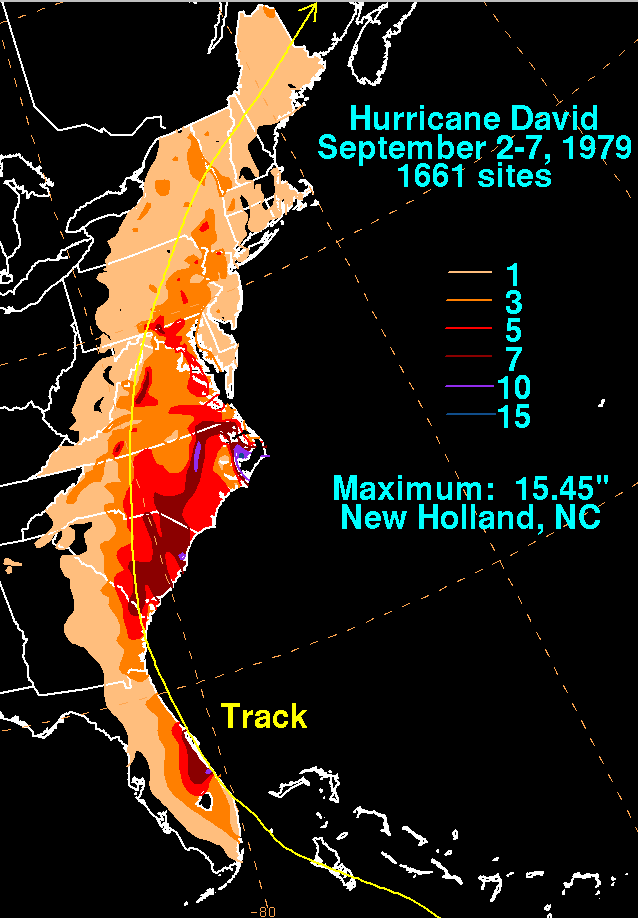 Storm total rainfall map of Hurricane David during September 1979.